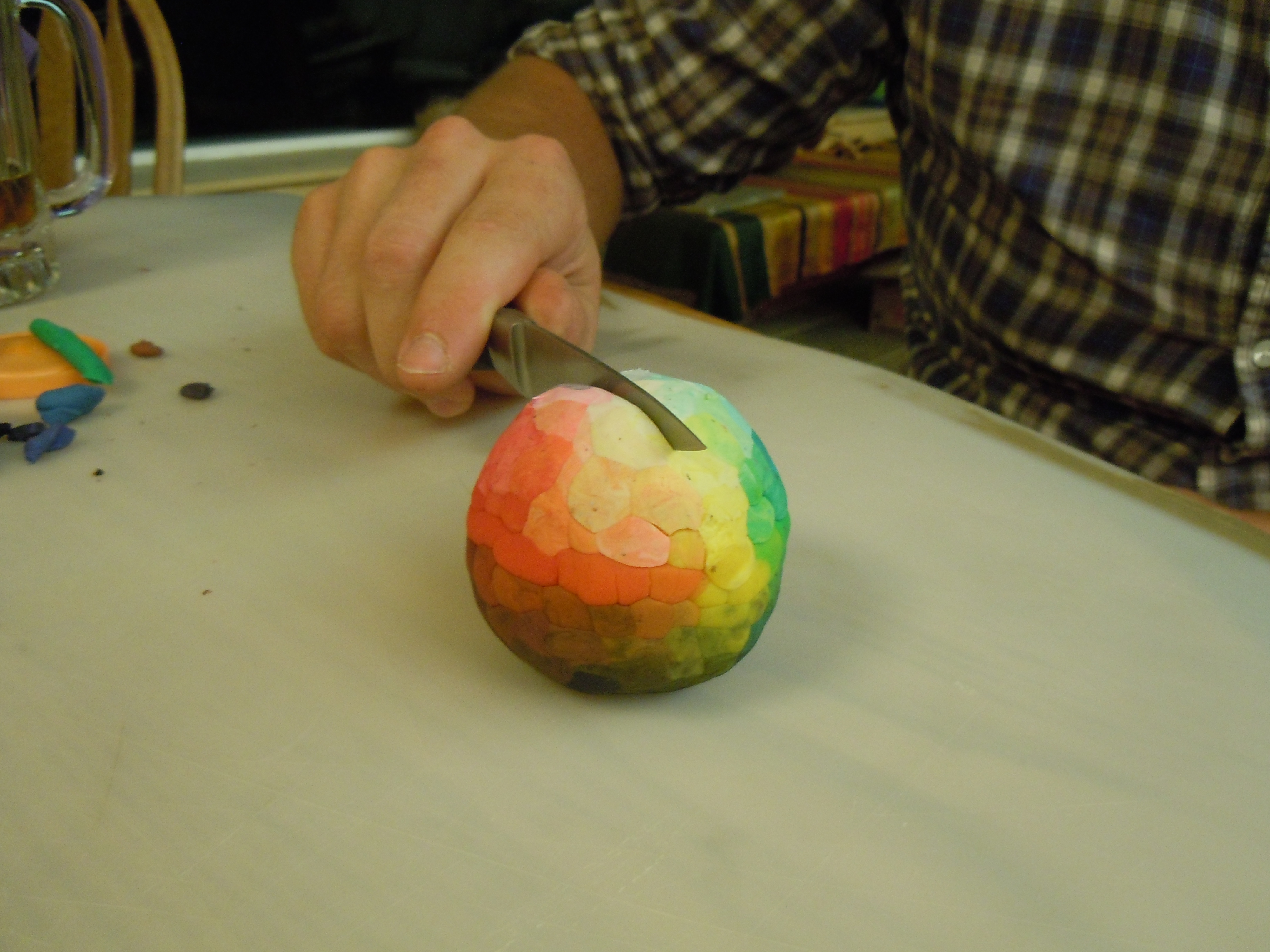 Three-dimensional color theory model made from salt-dough. The sphere shows all of the hues and values that can be mixed from white, black, yellow, blue and red.